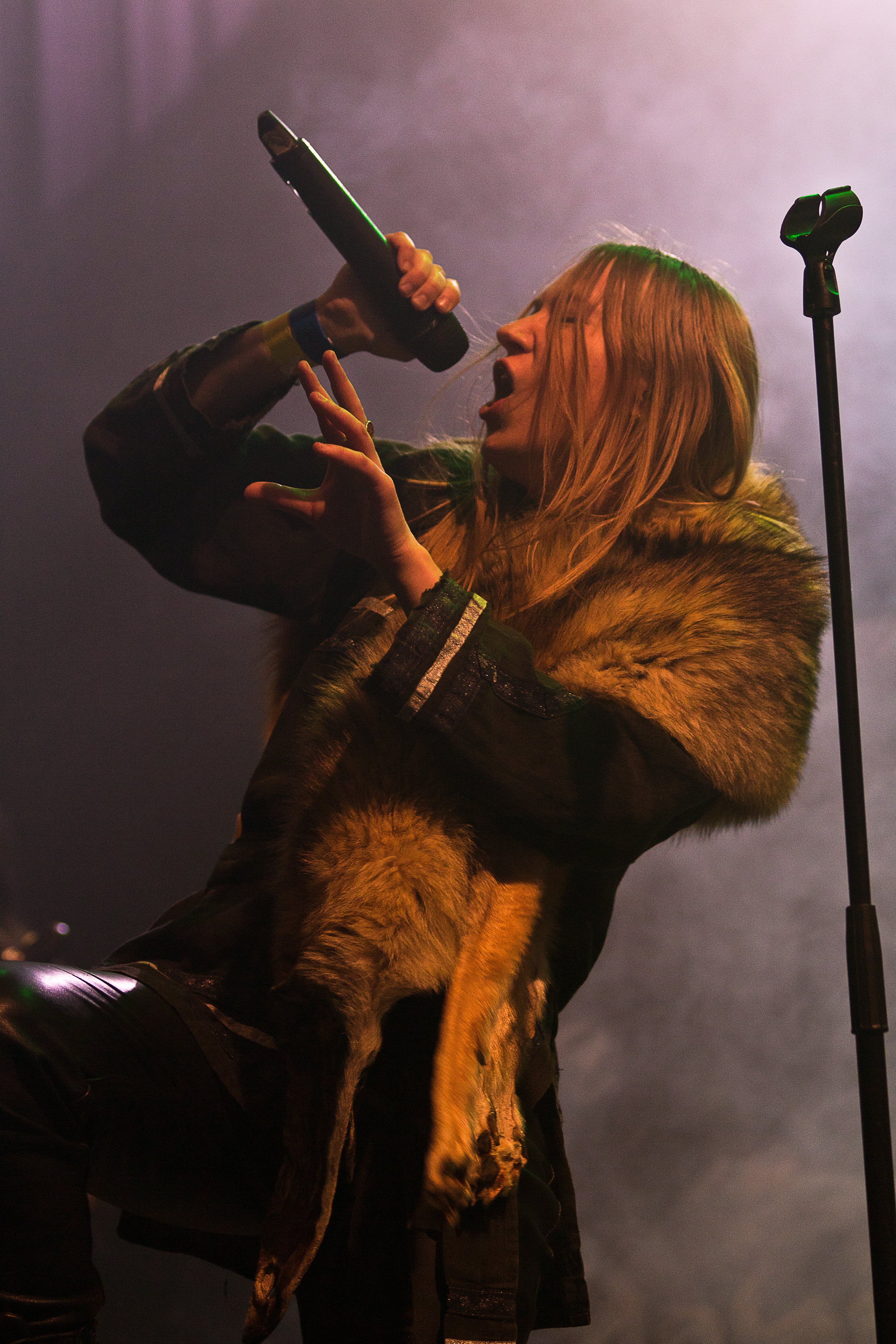 The Russian pagan metal band Arkona at the Wave-Gotik-Treffen 2015 in Leipzig/Germany.